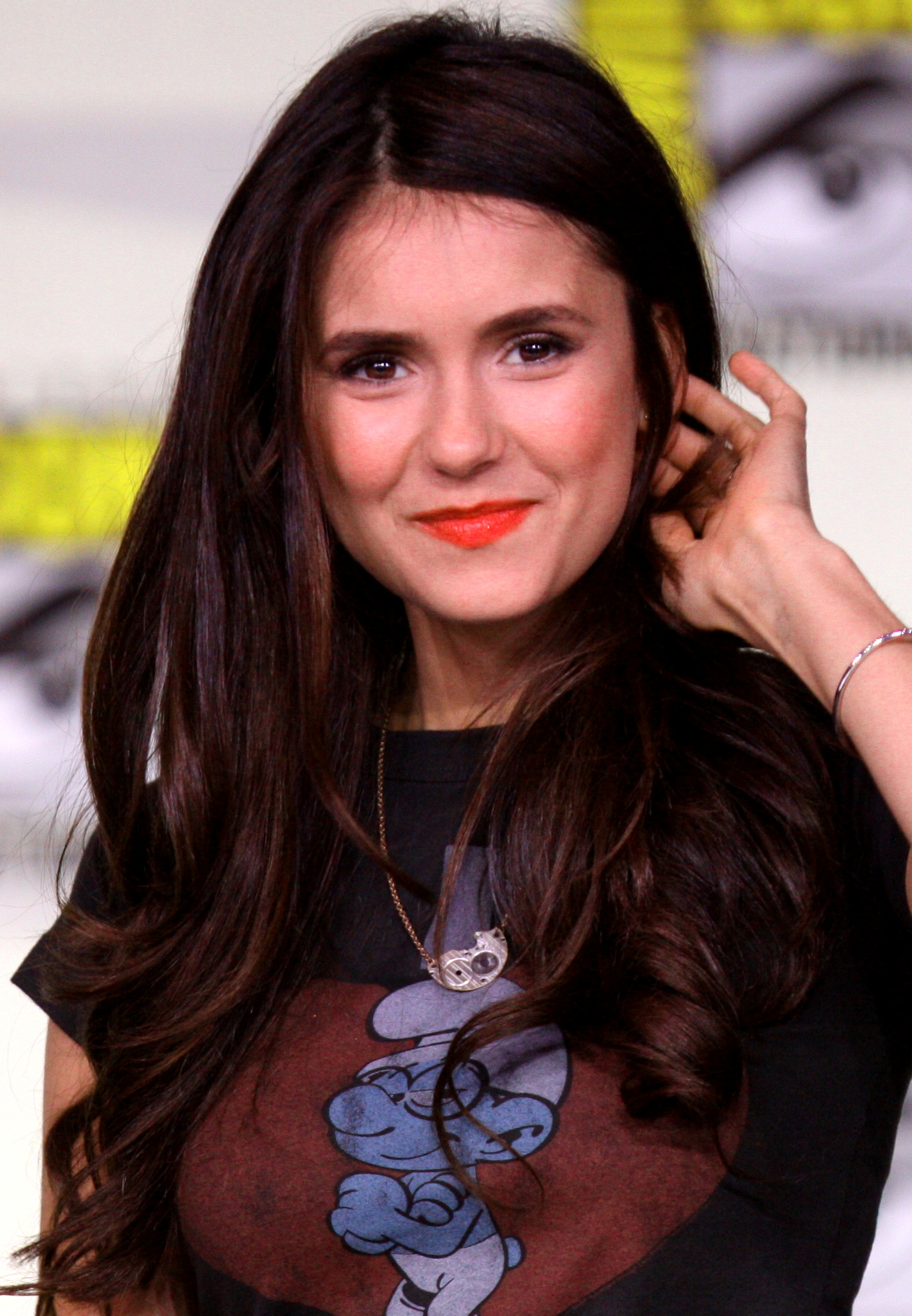 Bulgarian actress Nina Dobrev at the 2011 San Diego Comic-Con International in San Diego, California.